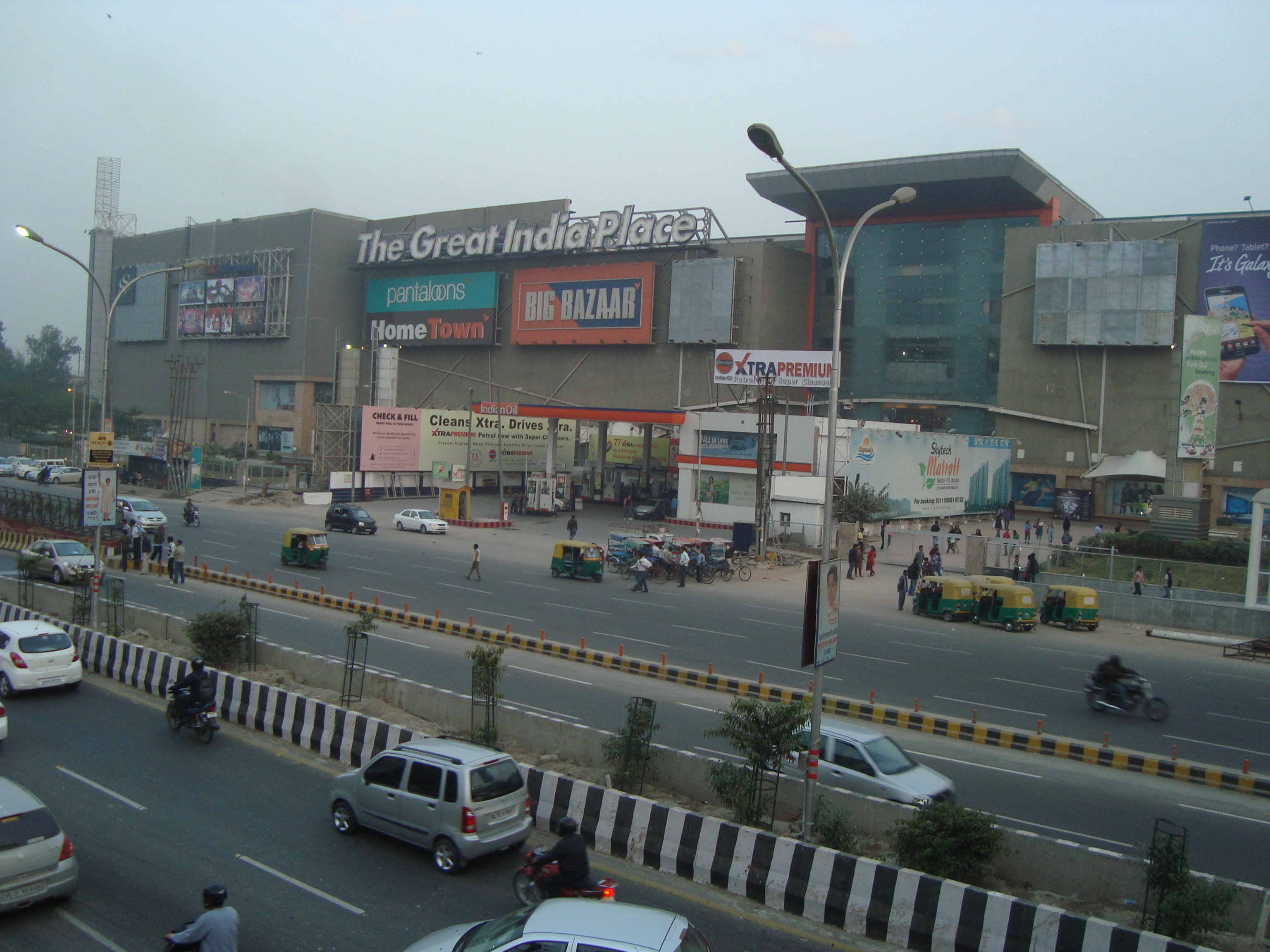 Great India Place, Noida, India